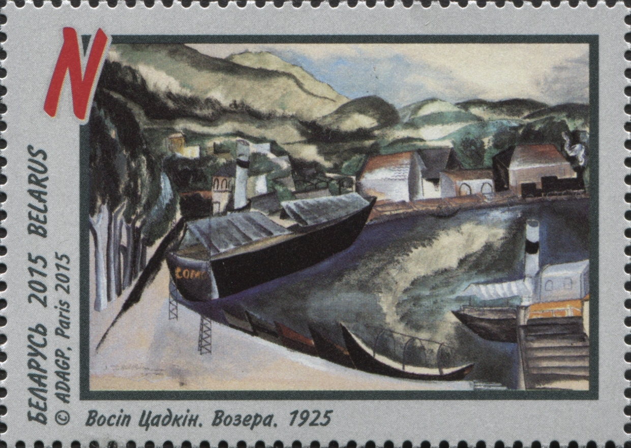 Stamps of Belarus, 2015